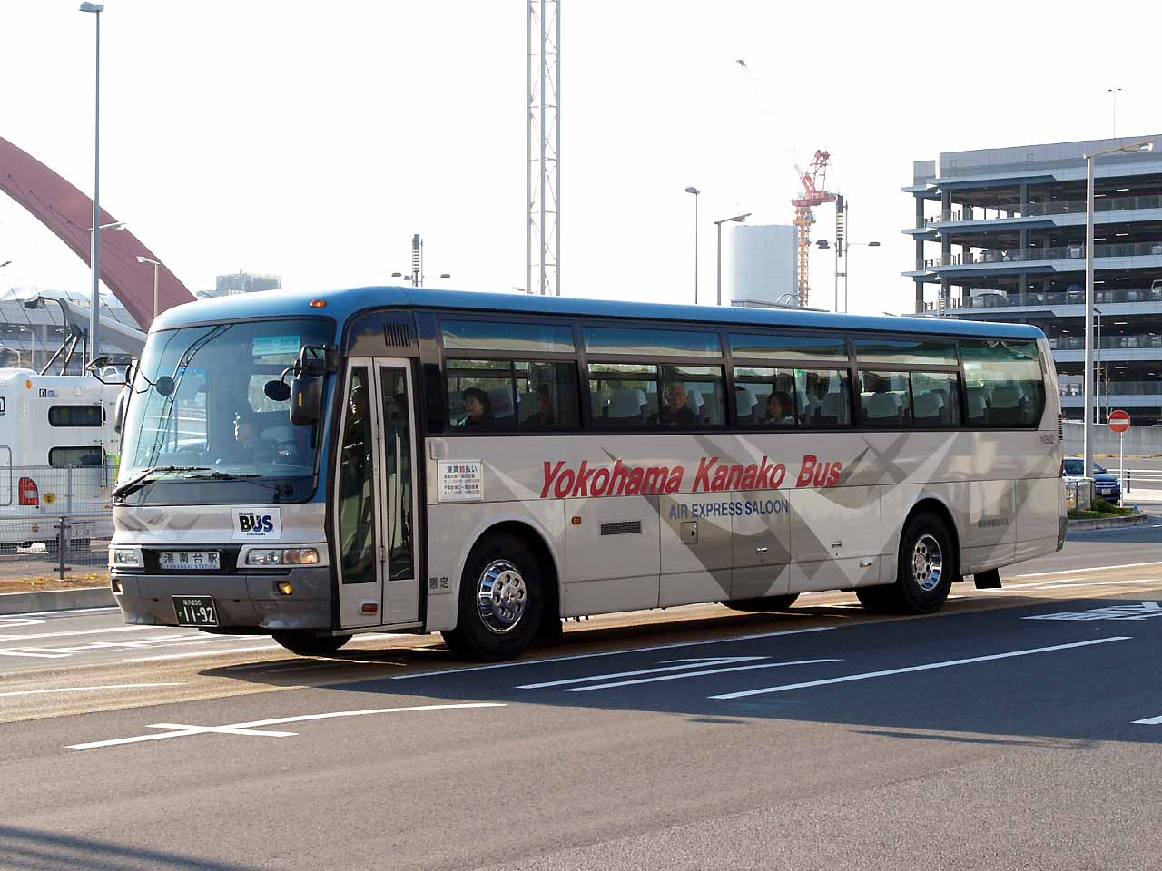 Yokohama Kanako Bus, a group of Kanagawa Chuo Kotsu, airport route "Air Express Saloon". Model: Mitsubishi Fuso Aero Bus KL-MS86MS (Standard decker) License Plate: KNY200KA1192（横浜200か1192） Place: Tokyo International Airport: Ota ward, Tokyo Japan